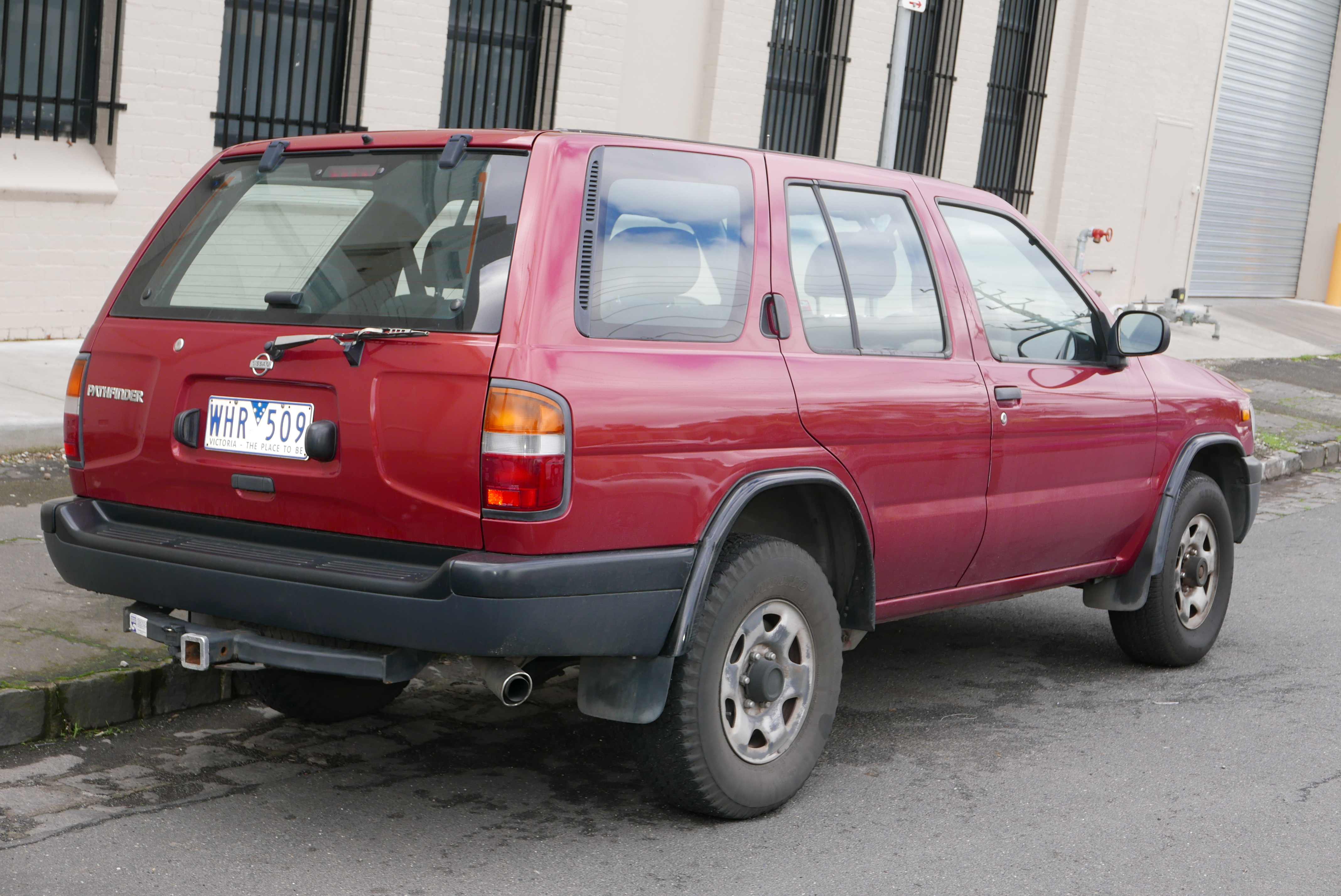 1997 Nissan Pathfinder (WX) RX wagon. Despite the date discrepancy with the vehicle registration information below, a check of the VIN reveals a build date of October 1997. Photographed in Brunswick East, Victoria, Australia. Vehicle registration enquiry results Jurisdiction Victoria Registration WHR509 Chassis code JN1TAZR50A0004933 Engine code VQ33061132 Compliance date 1998-01 Year of manufacture 1998